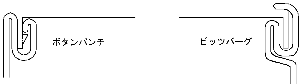 This appears to be a diagram of architectural seams, captioned in Japanese.